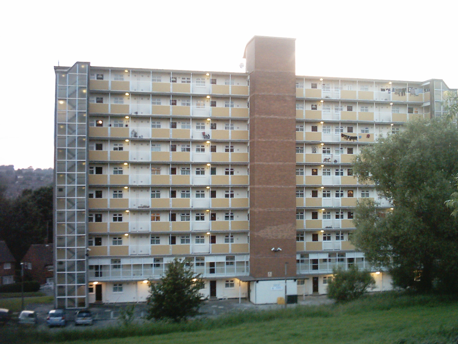 Clayton Grange Flats, Moor Grange, Leeds, West Yorkshire. As used as 'The Multistory Block of Flats' in the Beiderbecke Affair. Notes The yellow pannels were once blue while the walls behind were a pale shade of blue. This is showm in the buildings appearance in the Beiderbecke Affair.